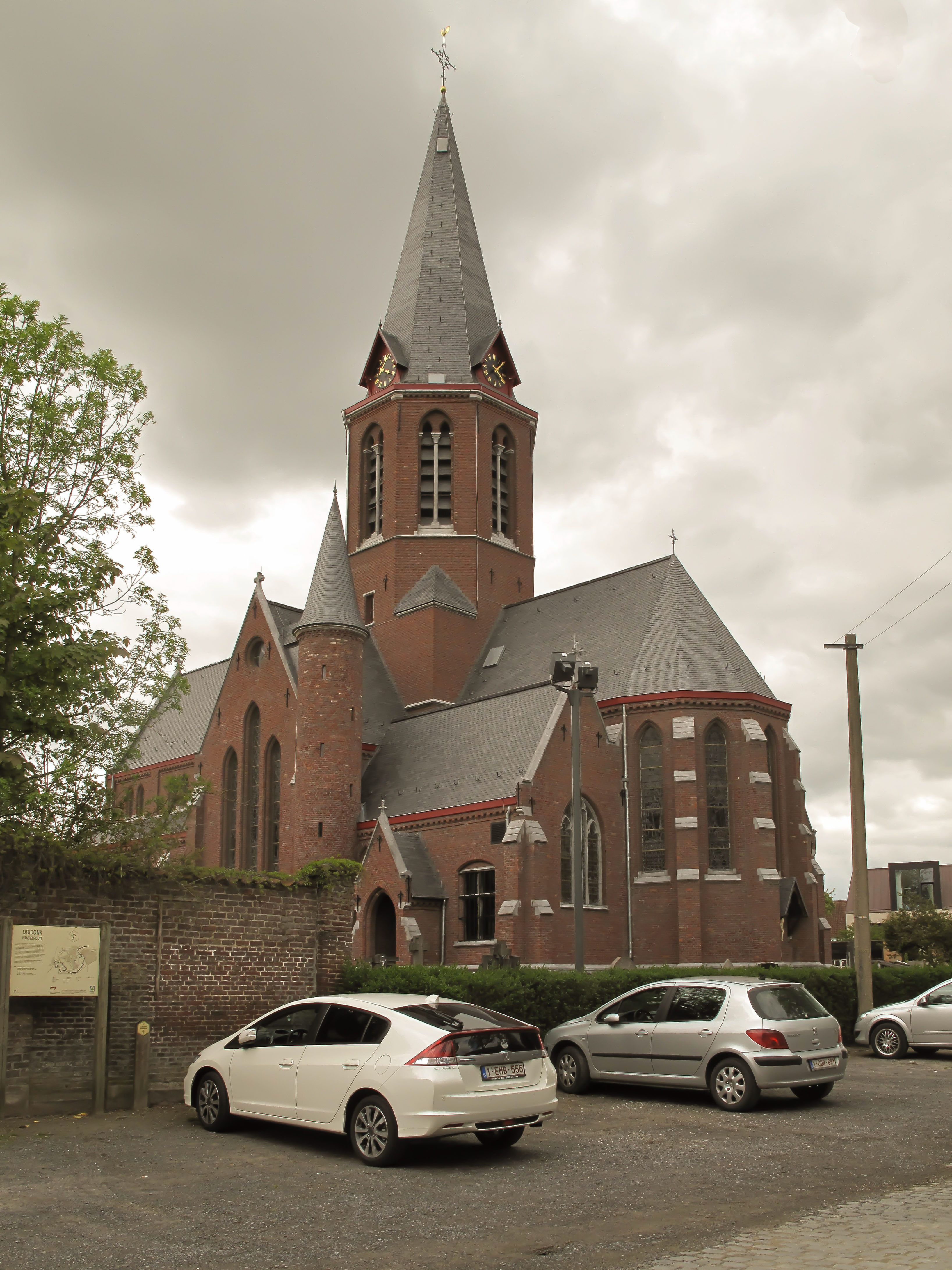 Bachte Maria Leerne, church of Our Lady and Saint John Baptist